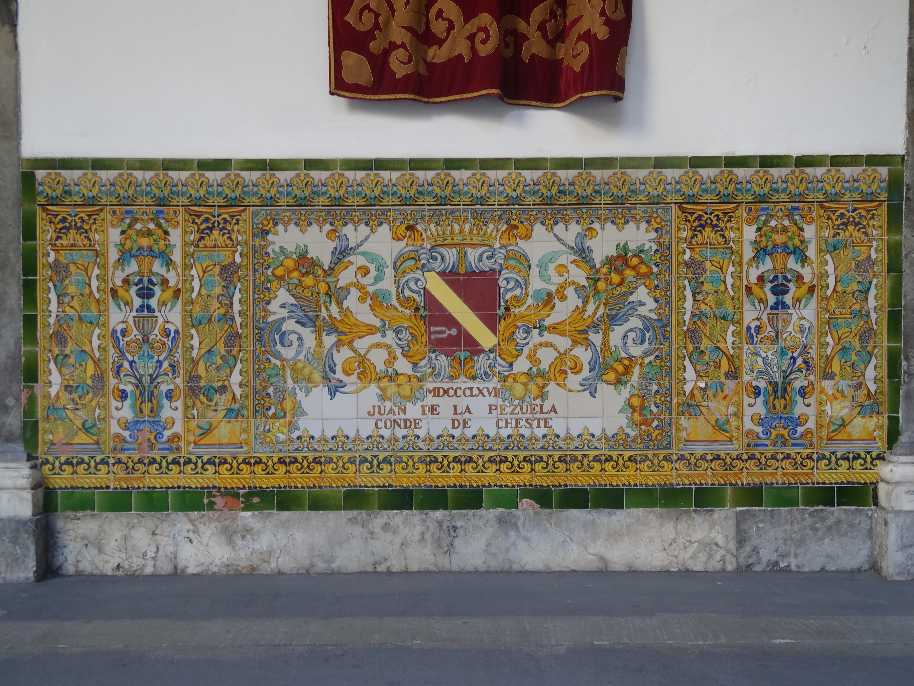 Decorated tiles at the cloister of the former Convent de la Mercè, Capitania General de Barcelona